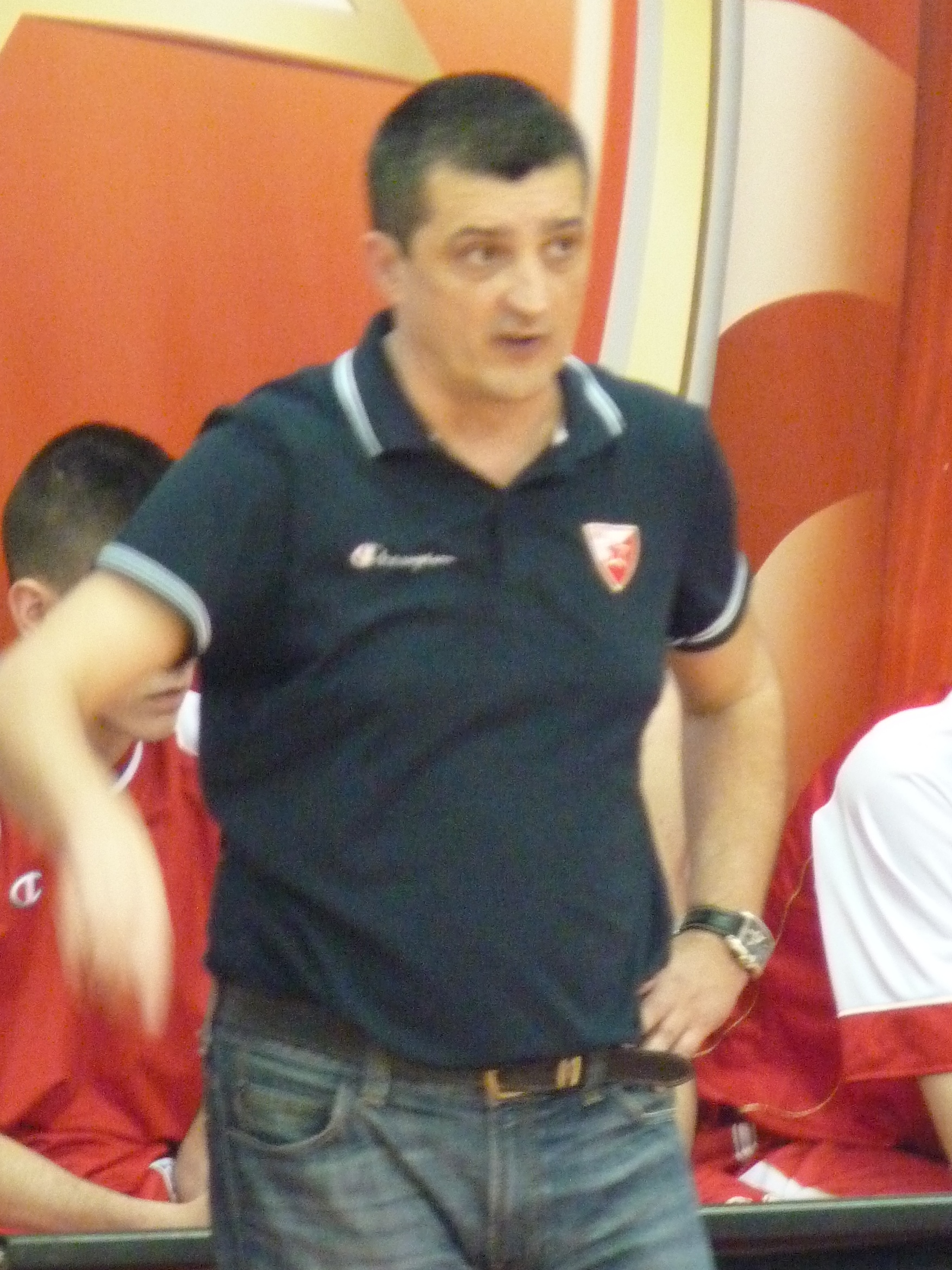 Slobodan Klipa, coach of young team of Red star